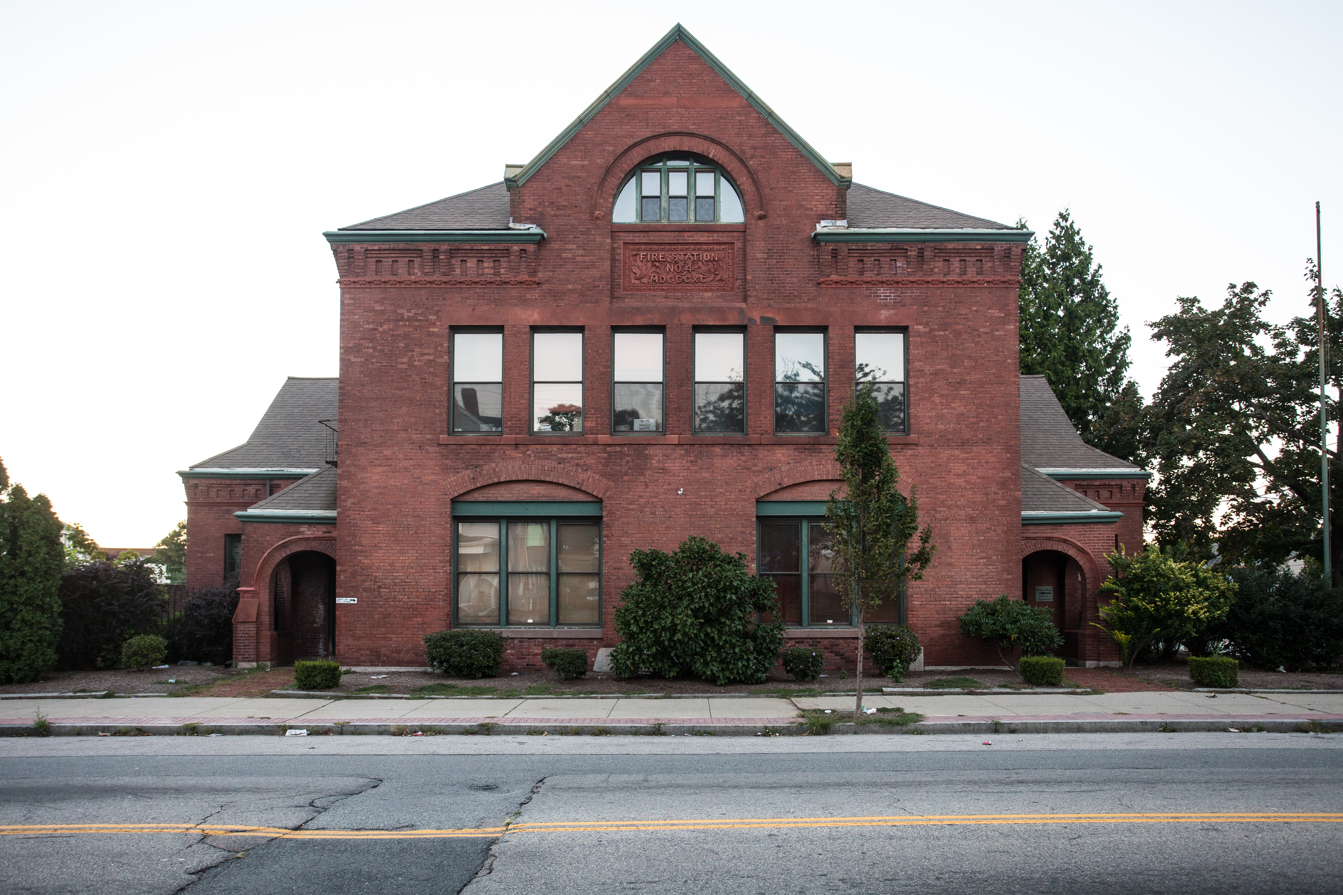 Fire Station No. 4 — in Pawtucket, Rhode Island. 19th century brick Victorian era building, on the National Register of Historic Places in Pawtucket.